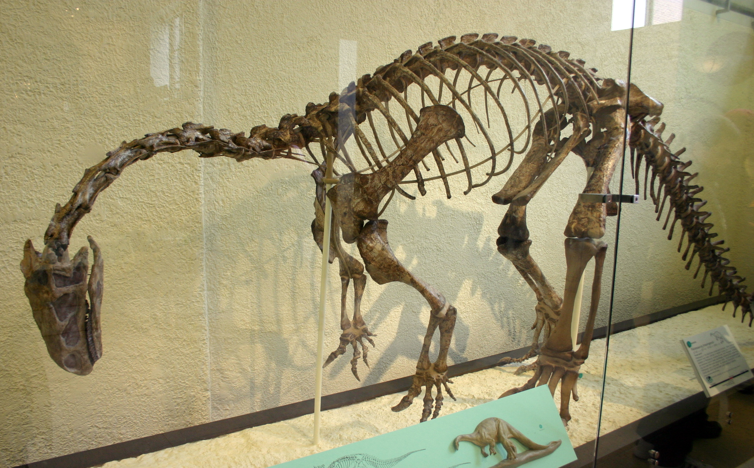 broad reptile Visit my blog at